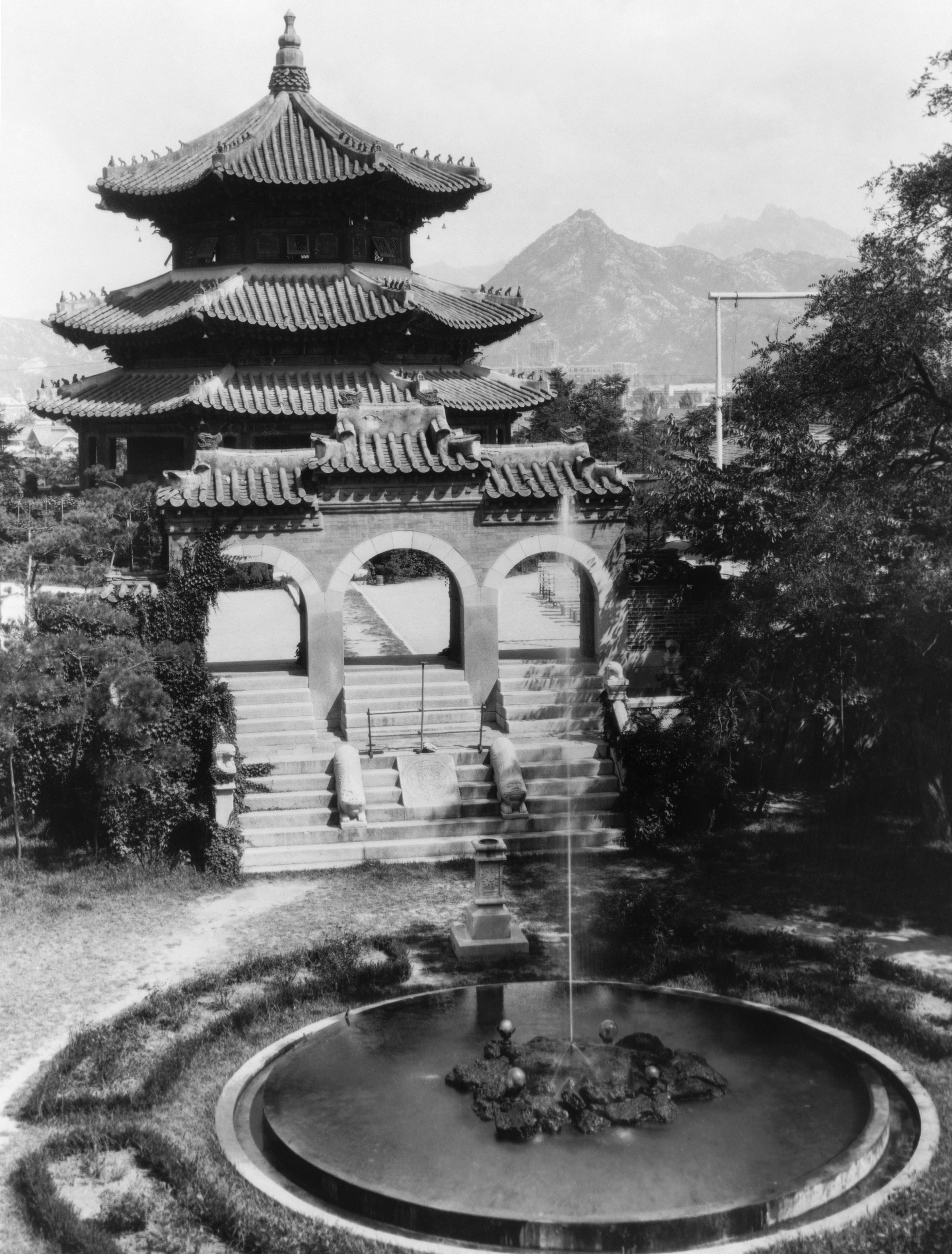 "Temple of Heaven, Seoul, Korea"